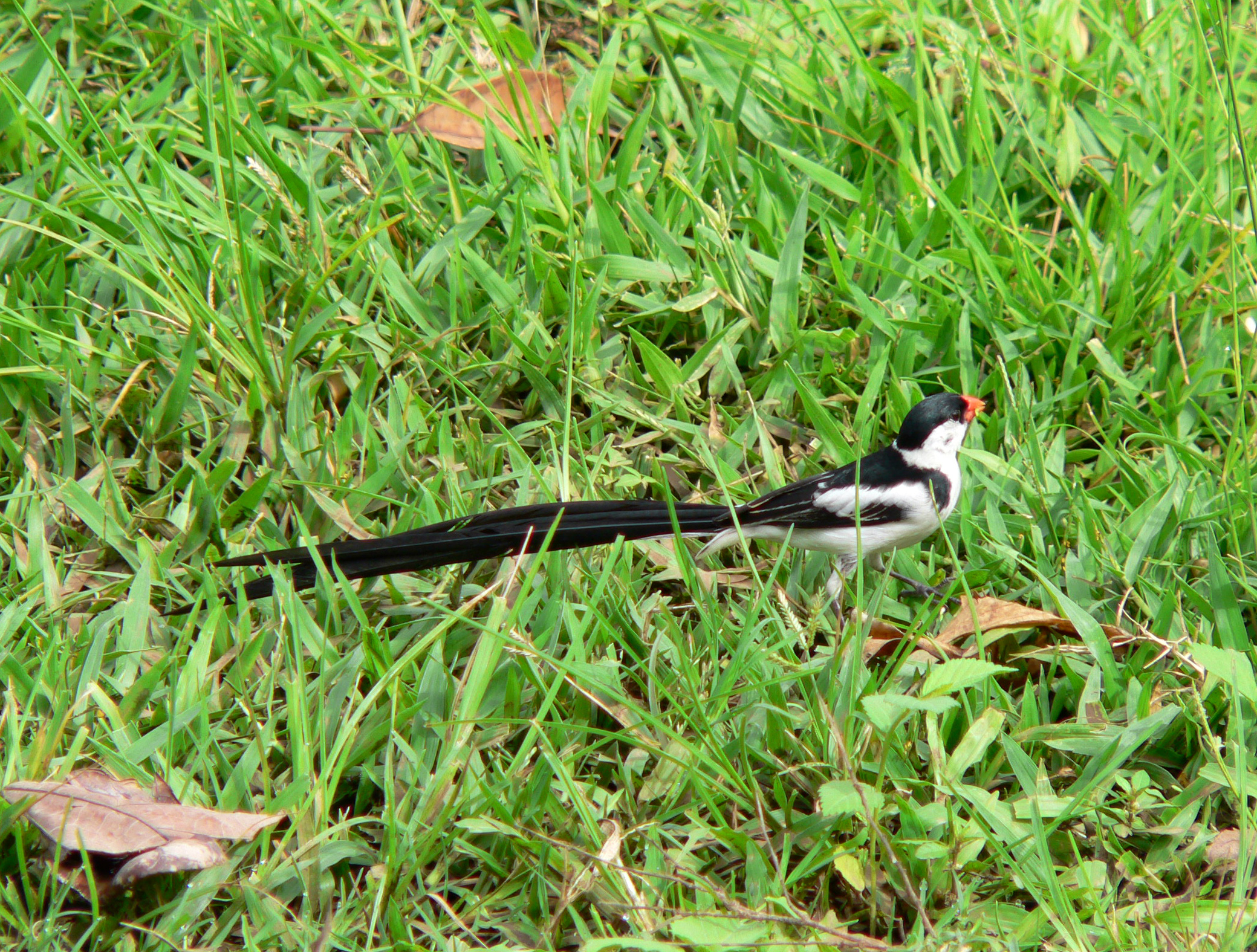 Male Pin-tailed Whydah (Vidua macroura), Ghana